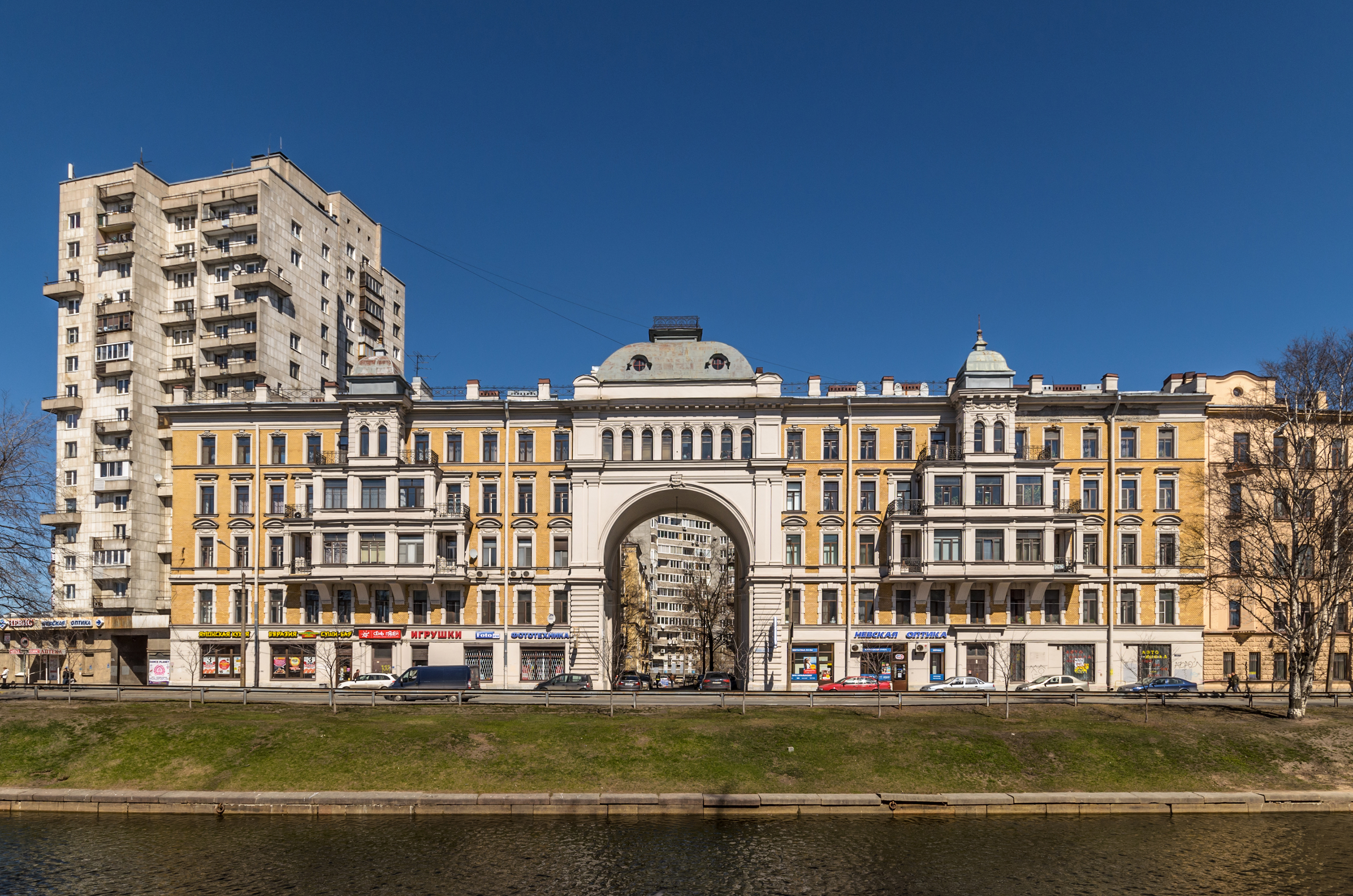 Porshneva apartment house at Chyornaya Rechka embankment in Saint Petersburg